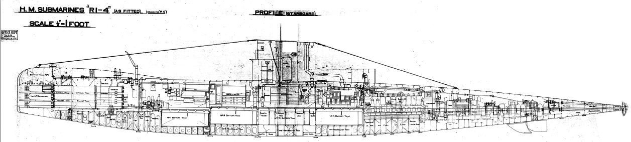 Copy of the original Admiralty drawings of the R Class submarine. The work has been cleaned up by caswellsubs